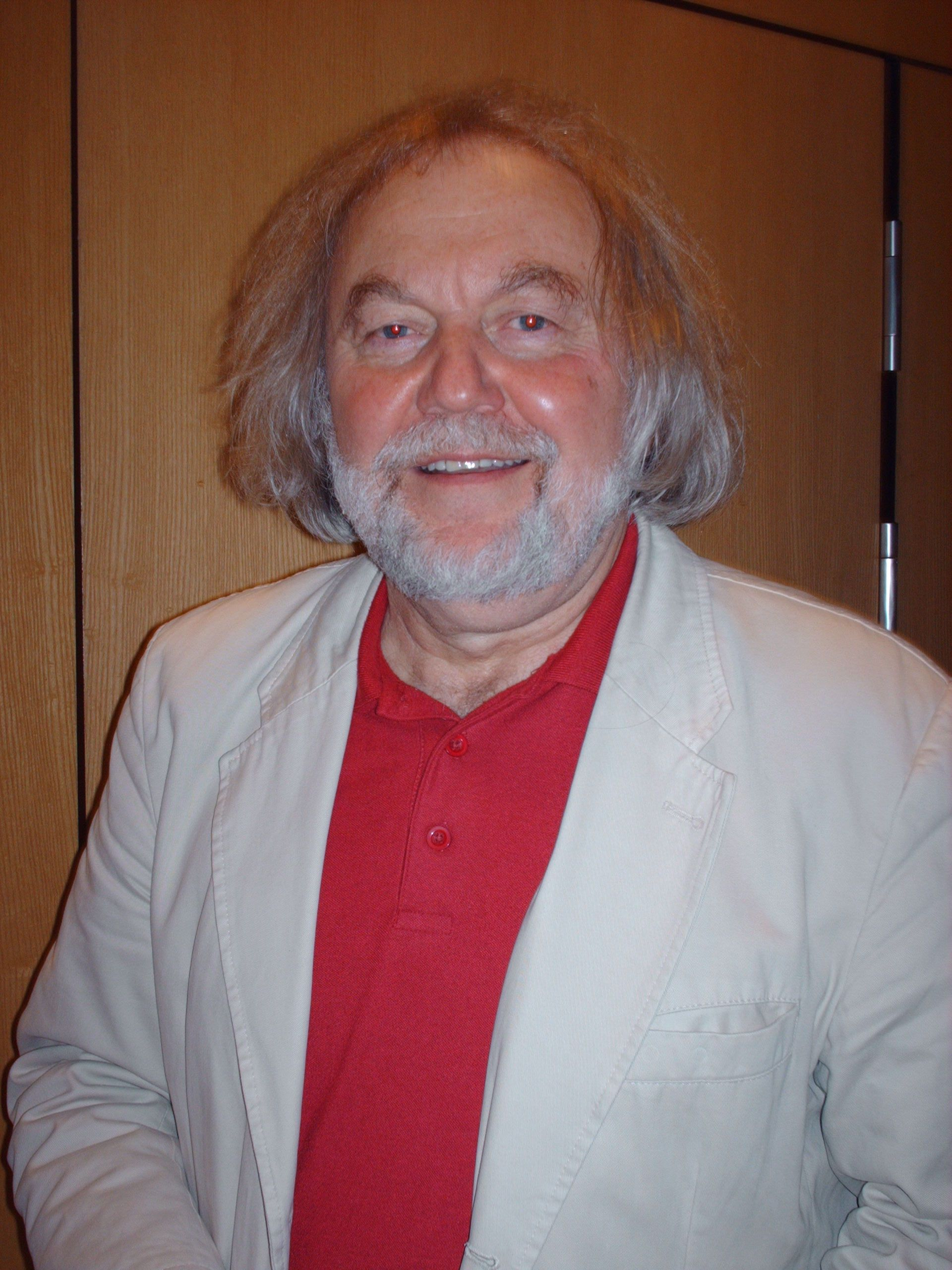 Siegfried Pater check usage